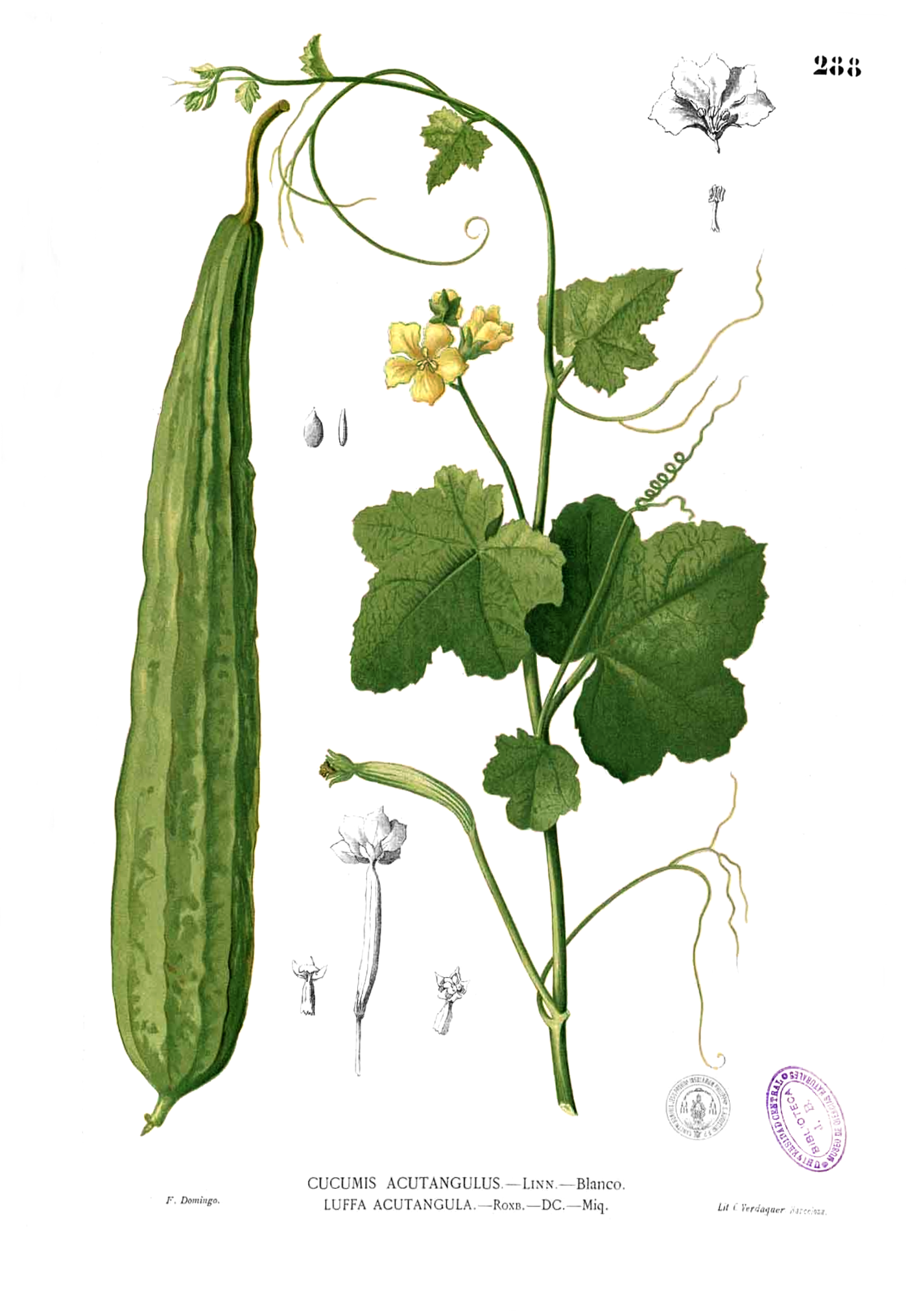 Plate from book